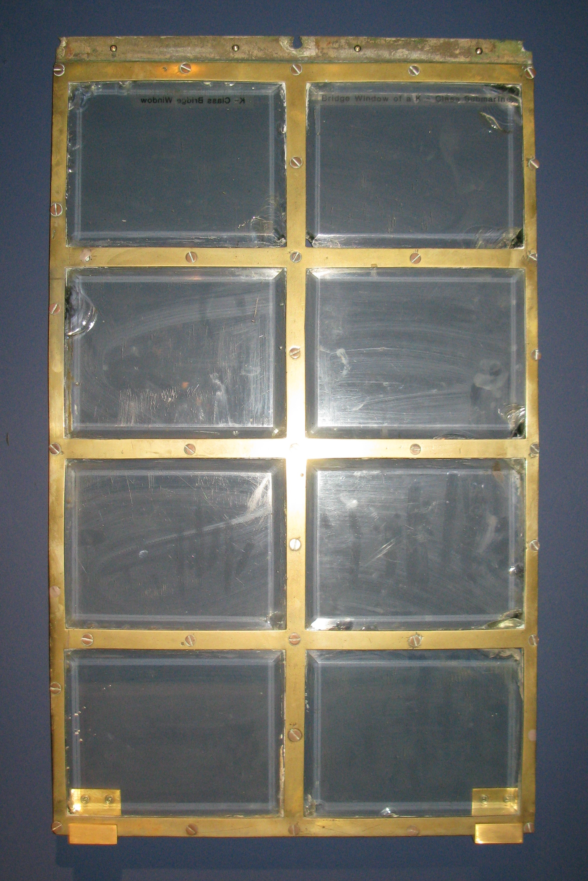 Photo of a british K class submarine bridge window